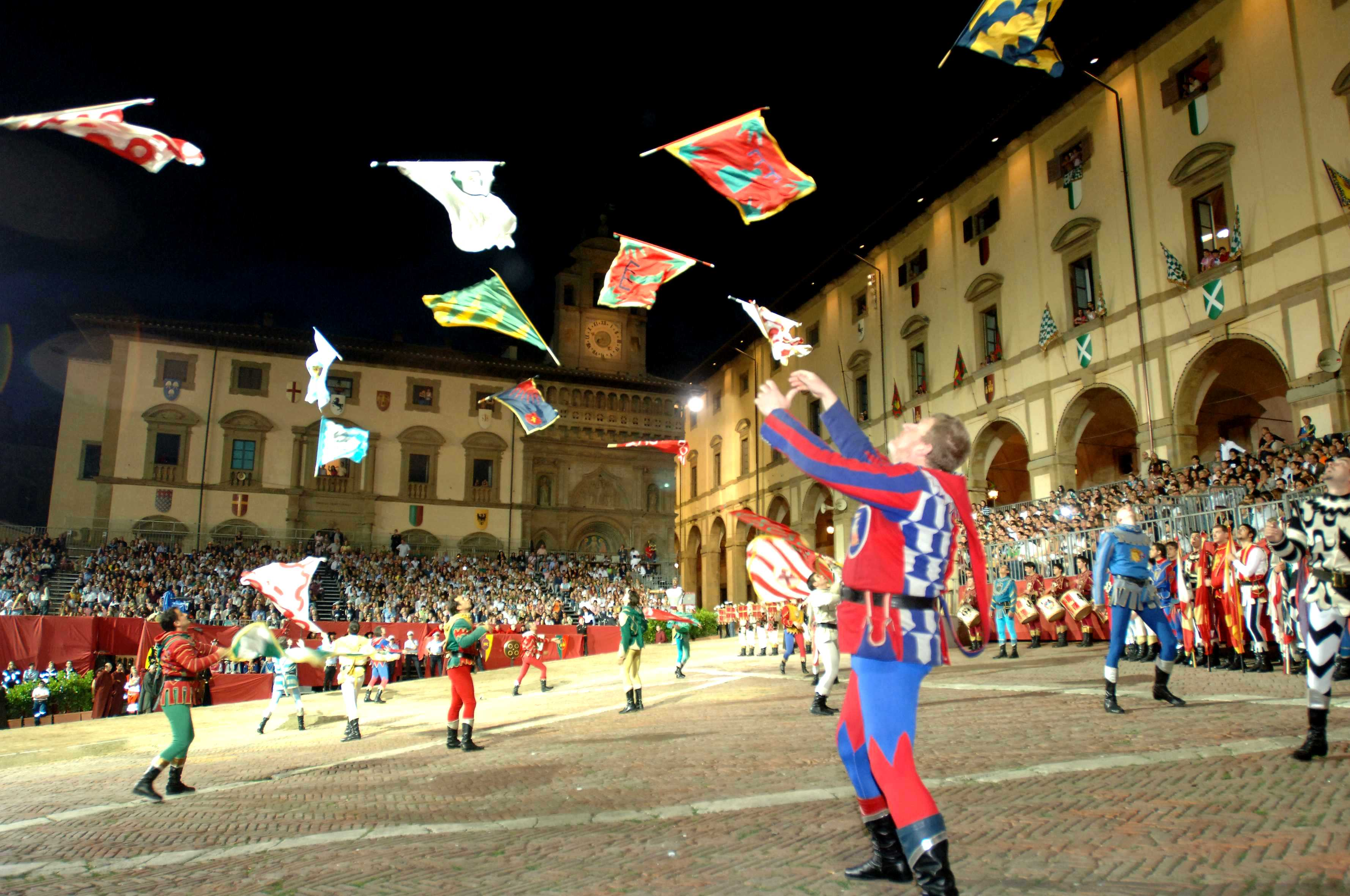 Evening performance of the Saracen Joust in Arezzo: Exhibition of the flag-wavers